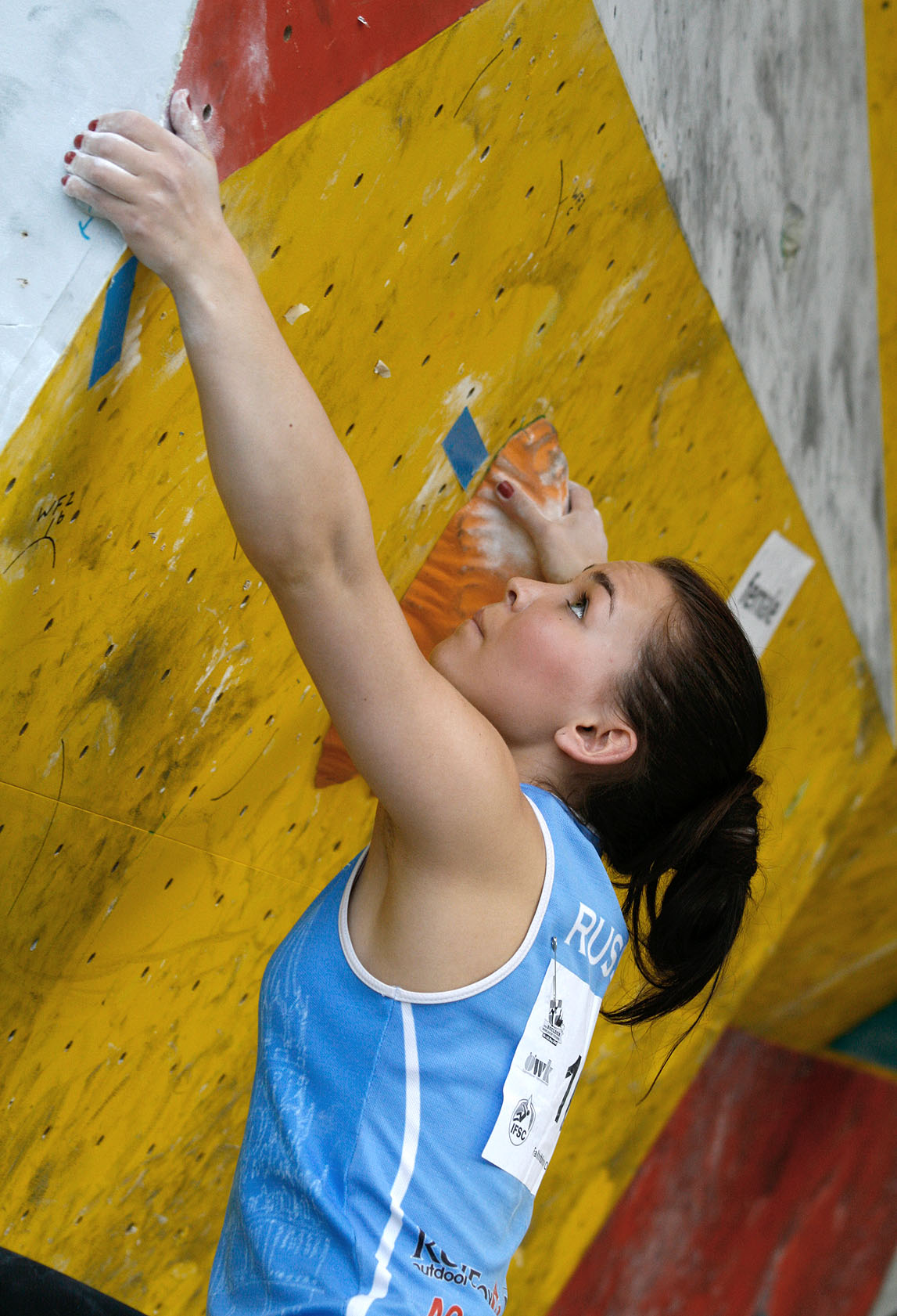 Dinara Fakhritdinova during qualifications at the IFSC Boulder Worldcup Vienna 2010.